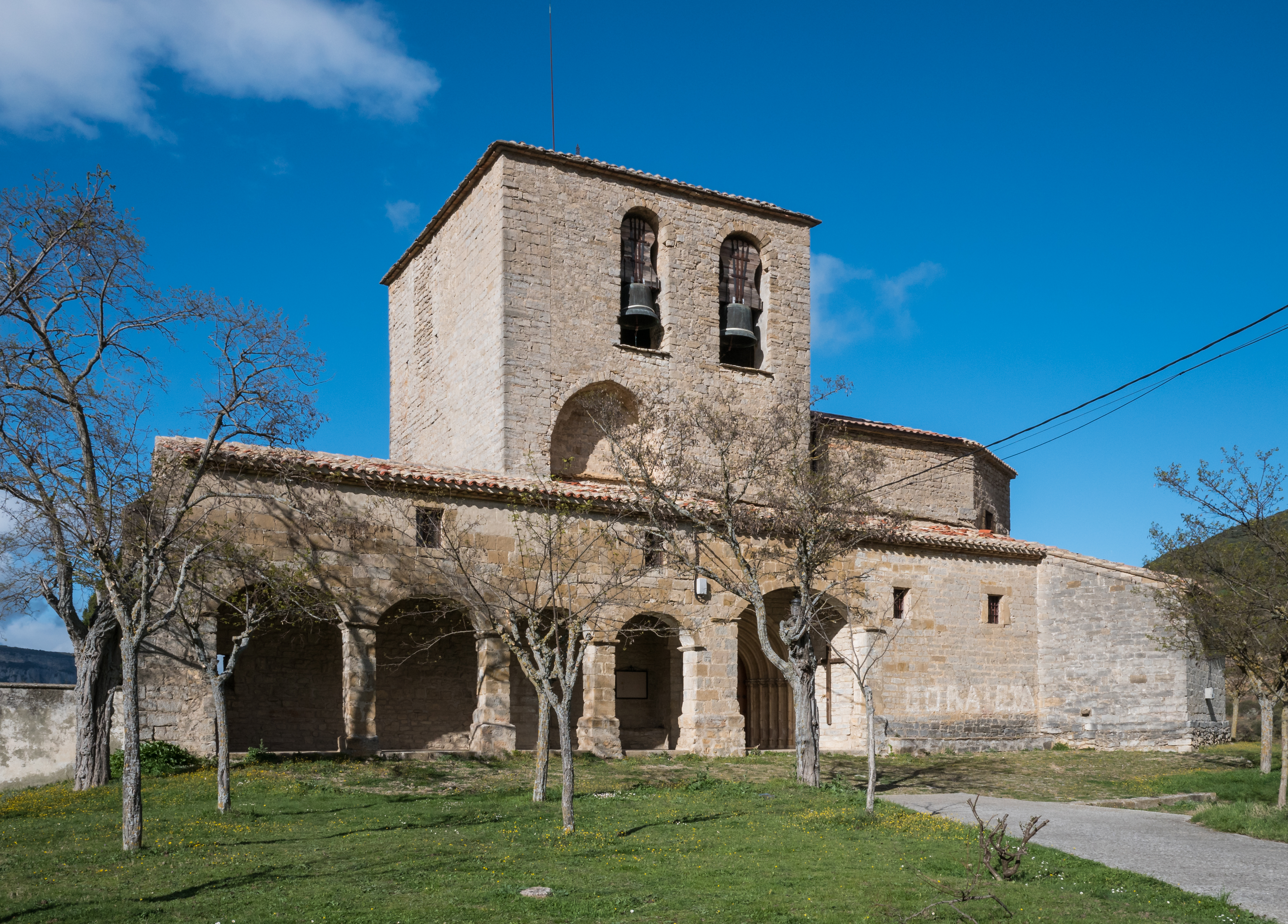 Church "Parroquia de la Asunción" in Belascoáin, Navarre, Spain